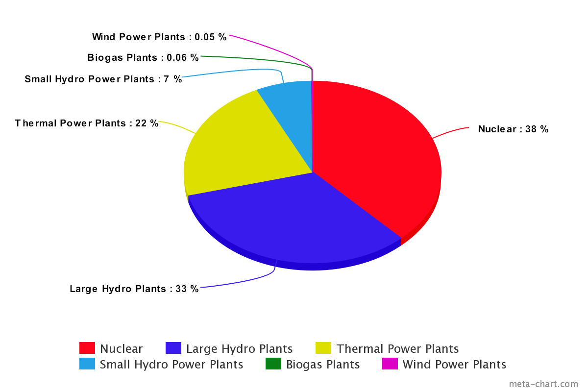 Electricity Generation in Armenia